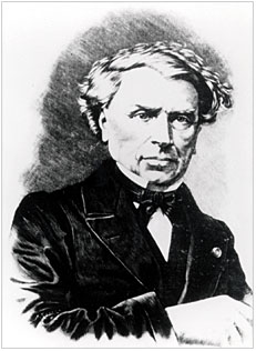 Louis Thomas Jerome Auzoux